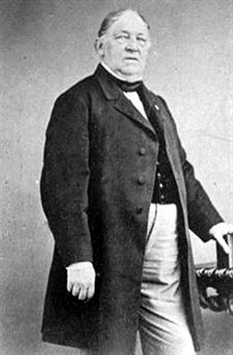 Jan Anne Beijerinck